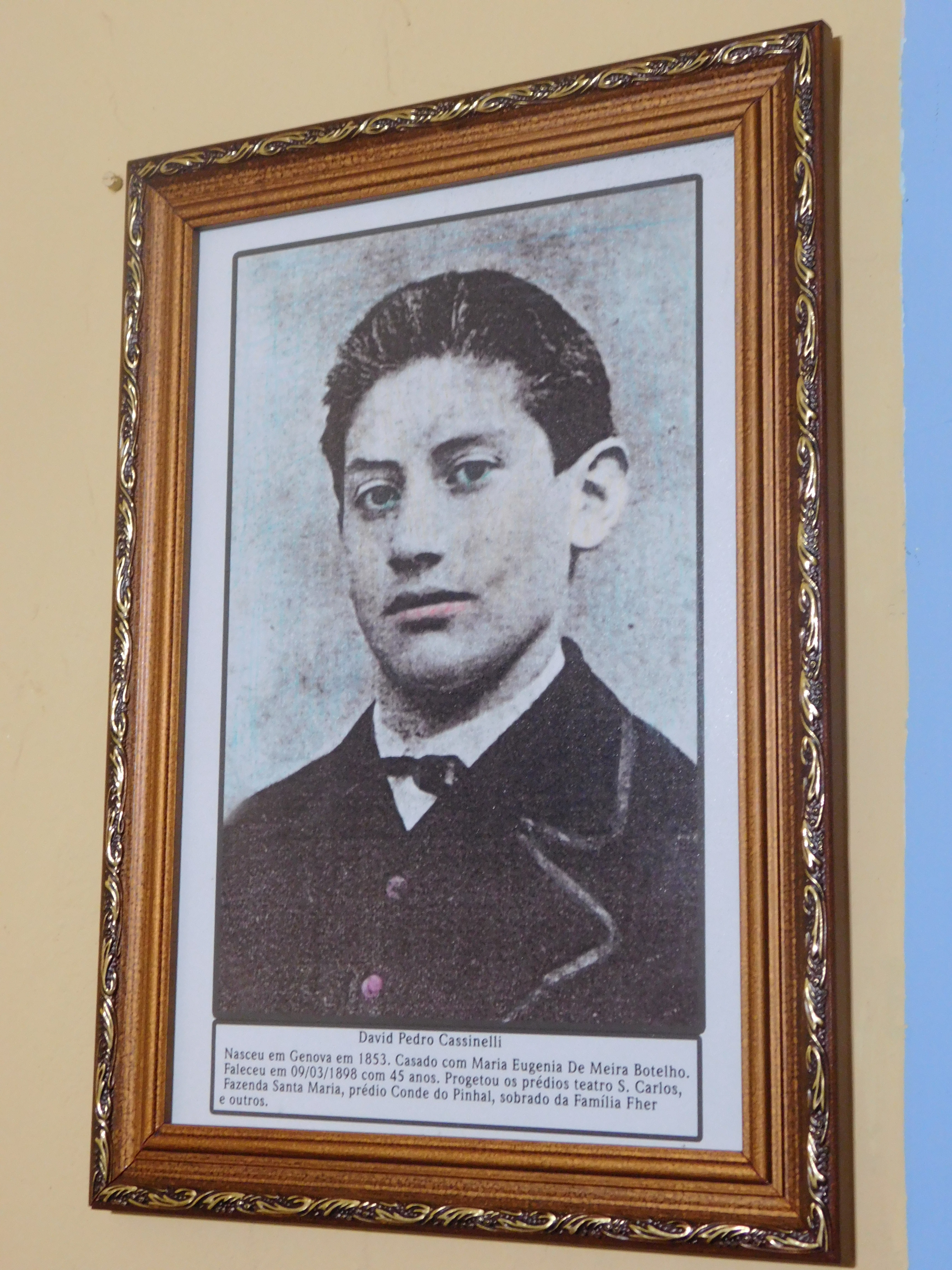 Santa Maria do Monjolinho is a famous ancient Brazilian coffee farm, located at the city of "São Carlos". Read more on its official website.